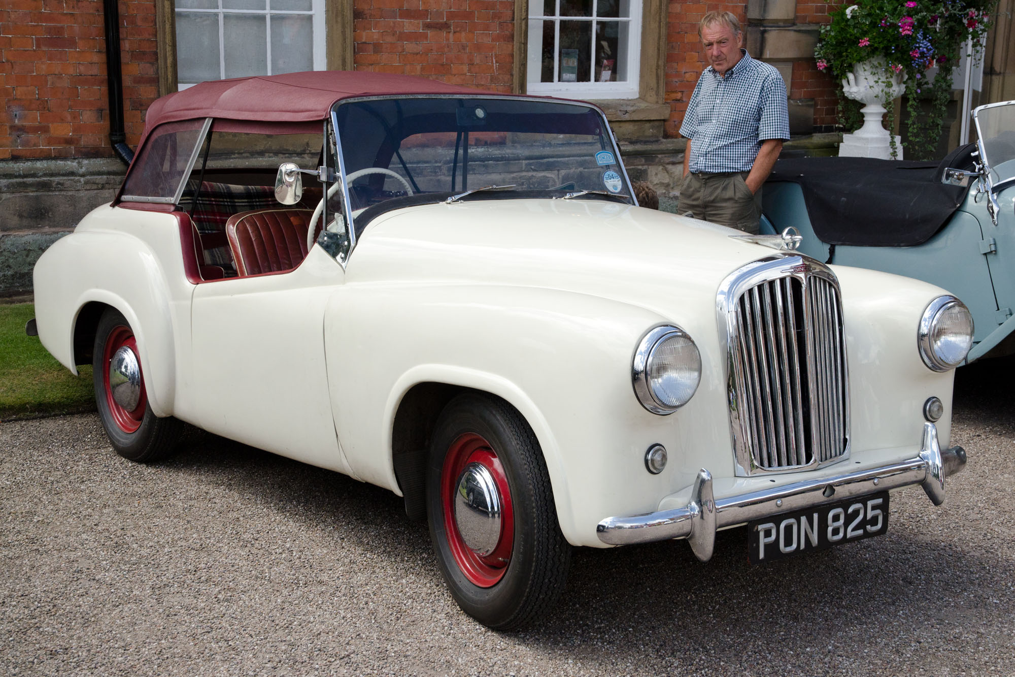 1955 Singer SMX Roadster no 2 (DVLA) first registered 1 January 1955, 1497 cc Capesthorne Hall Classic Car Show 27/07/2014